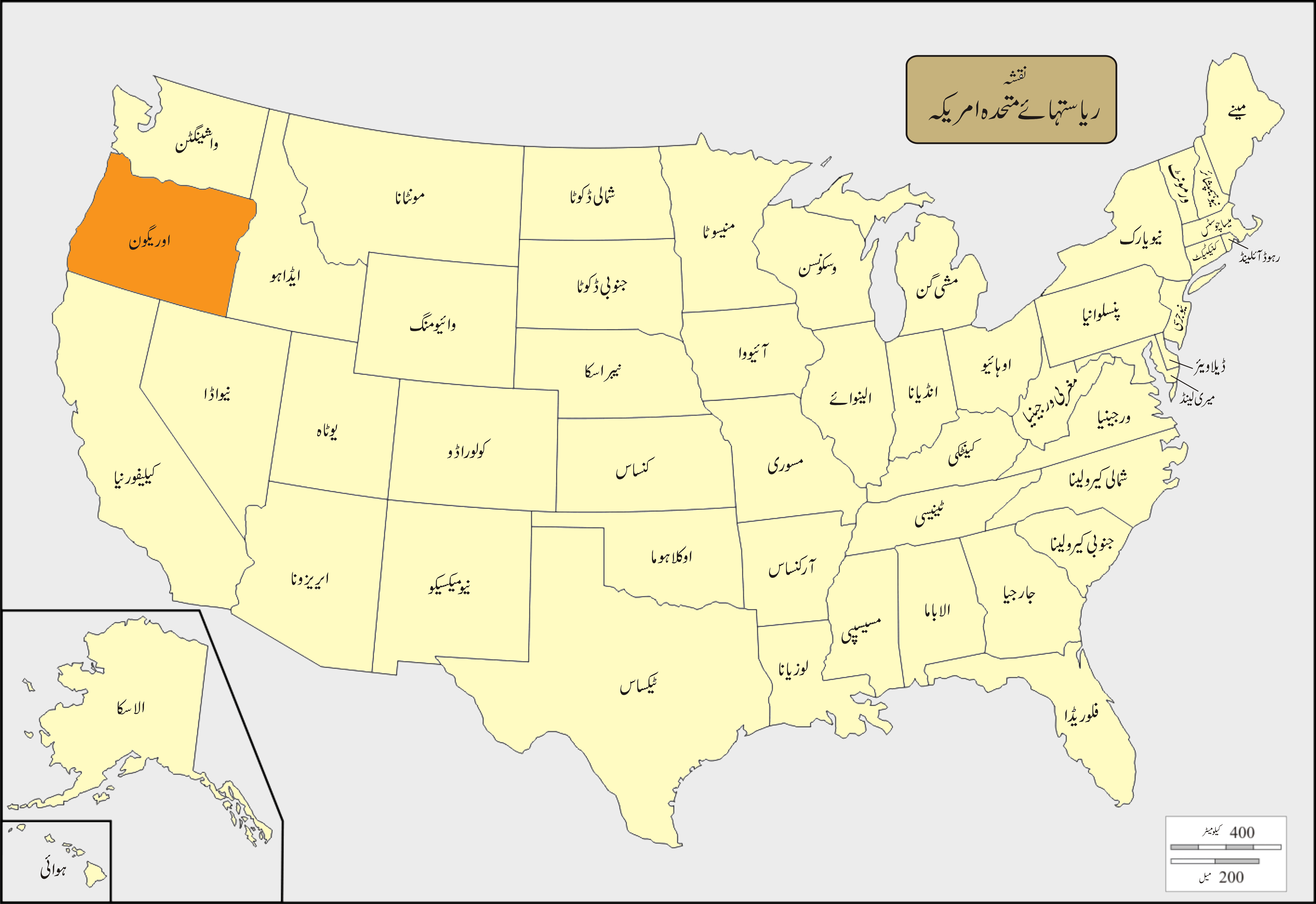 USA Names Oregon